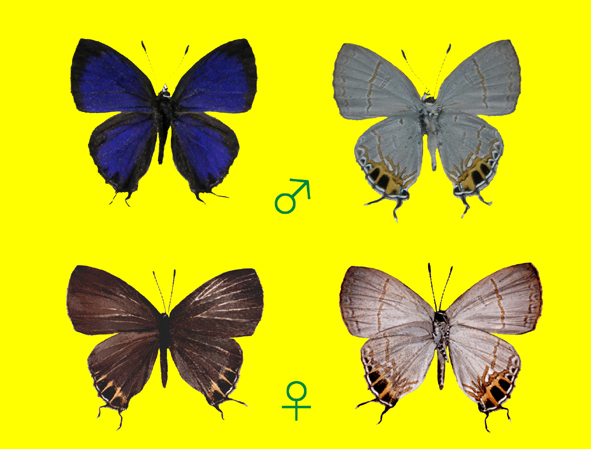 Hypolycaena toshikoae, male & female